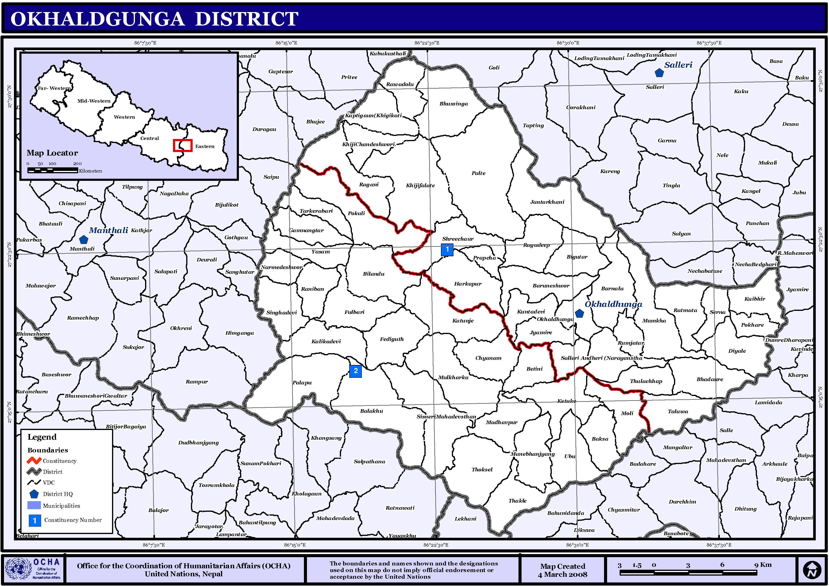 Map displaying Village Development Committees in Okhaldhunga District, Nepal